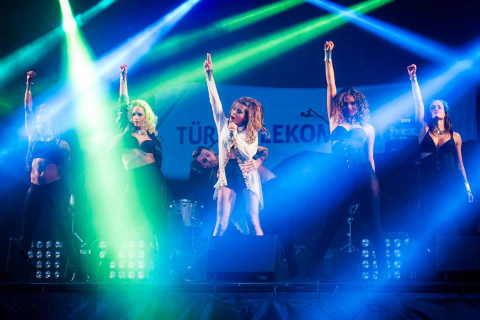 2014 yılında Funda